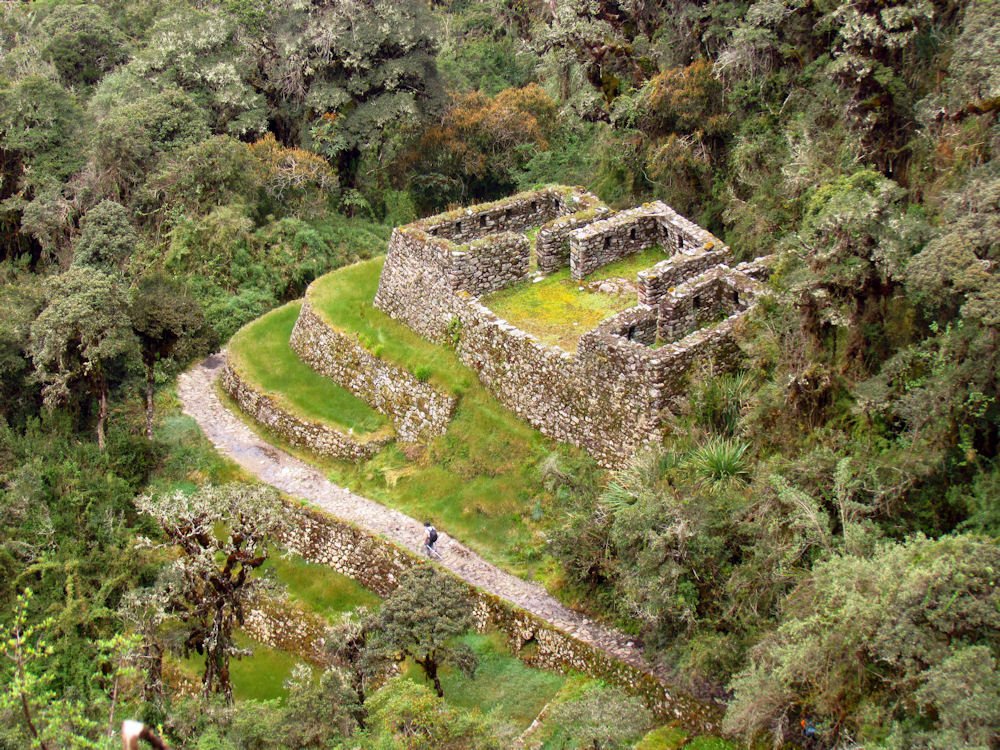 Conchamarka/Qonchamarka ("cooking stove spot") tambo along Inca Trail to Machu Picchu